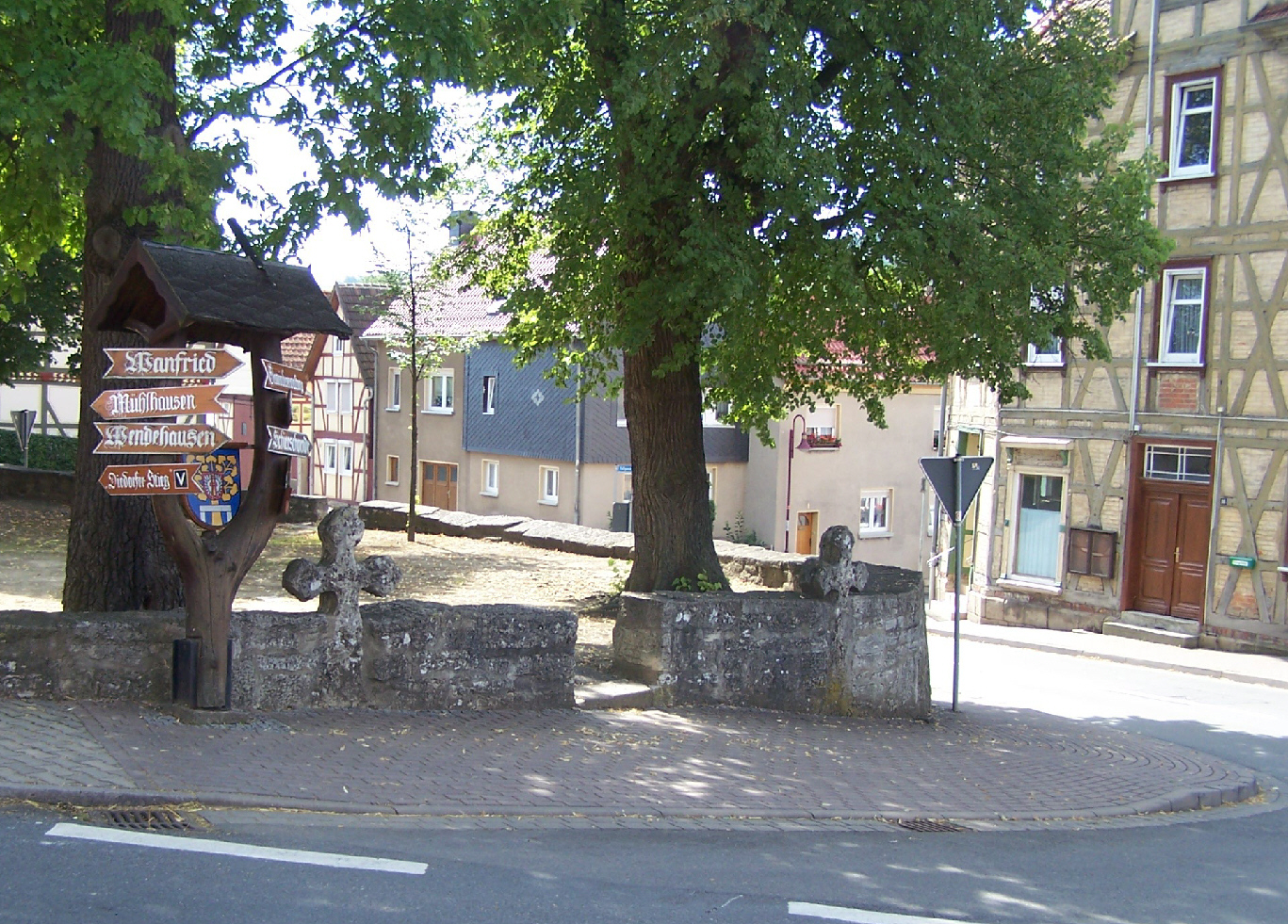 The village green in Diedorf.